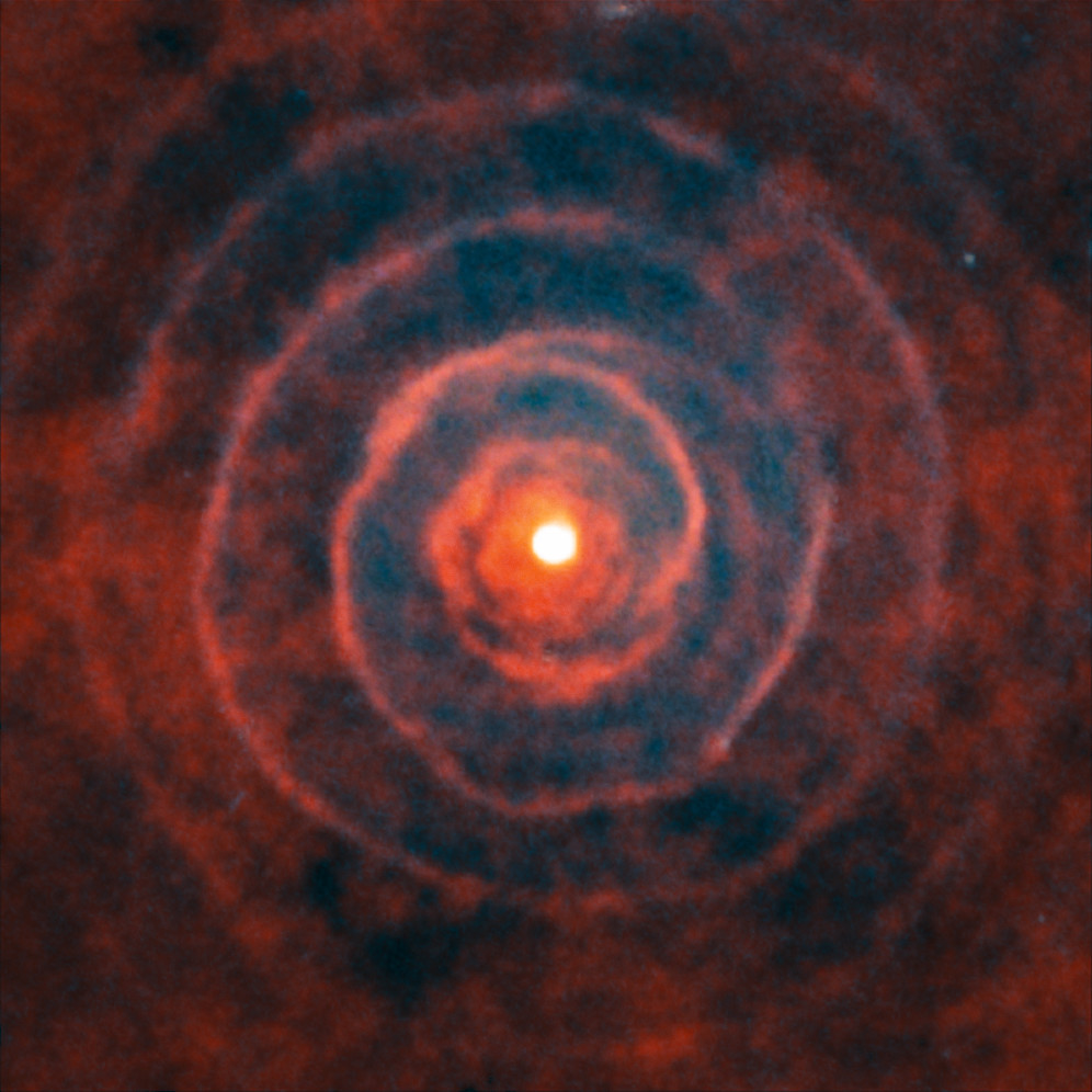 This image is a composite of images made with the NASA/ESA Hubble Space Telescope and the Atacama Large Millimeter/submillimeter Array (ALMA), both observing the binary star system LL Pegasi. The old star LL Pegasi is continuously losing gaseous material as it evolves into a planetary nebula, and the distinct spiral shape is the imprint made by the stars orbiting in this gas.